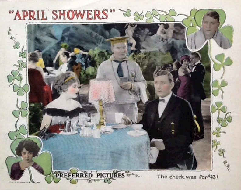 Lobby card for the American film April Showers (1923). The item has no copyright markings on it as can be seen in the links above. At bottom left is Country of origin USA.